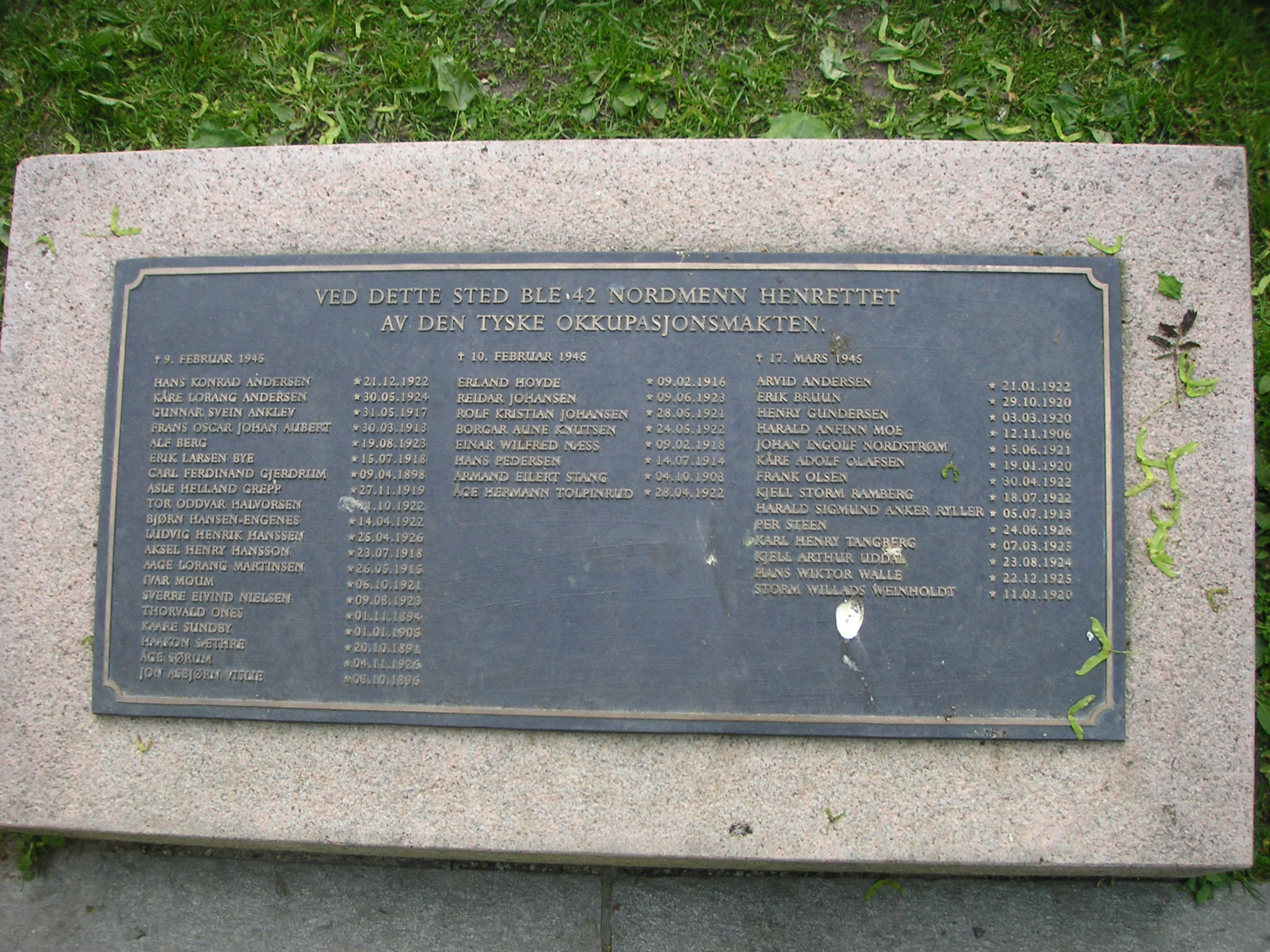 "Retterstedet" on Akershus Festning, Oslo, Norway. The plate of the 42 names that was executed here during WWII